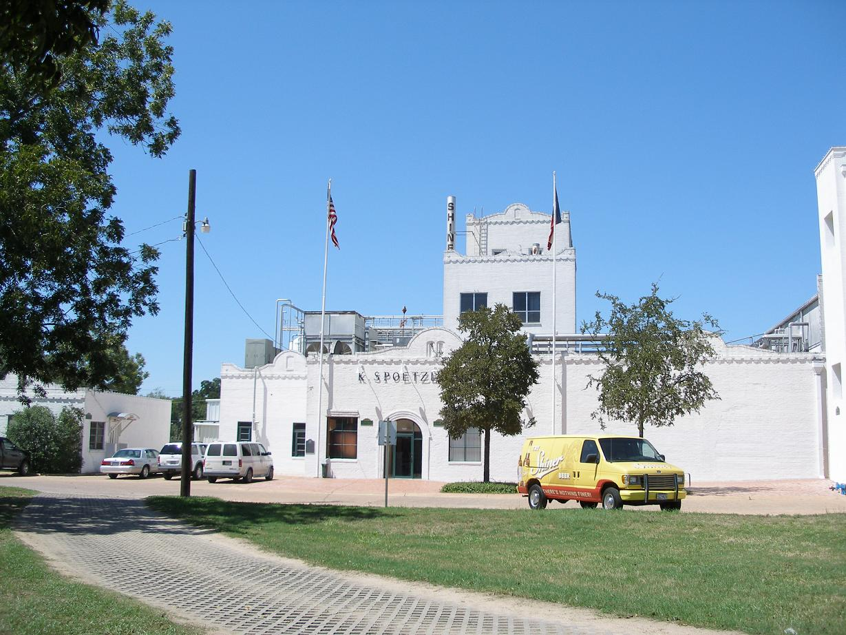 The Spoetzl brewery in Shiner, TX. Picture taken 20 September 2006.